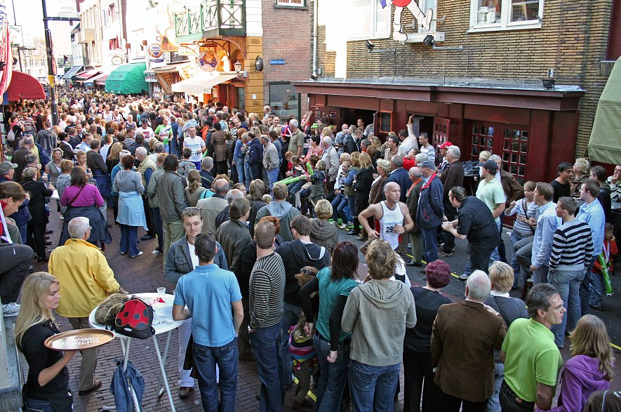 Marathon Eindhoven, Stratumseind